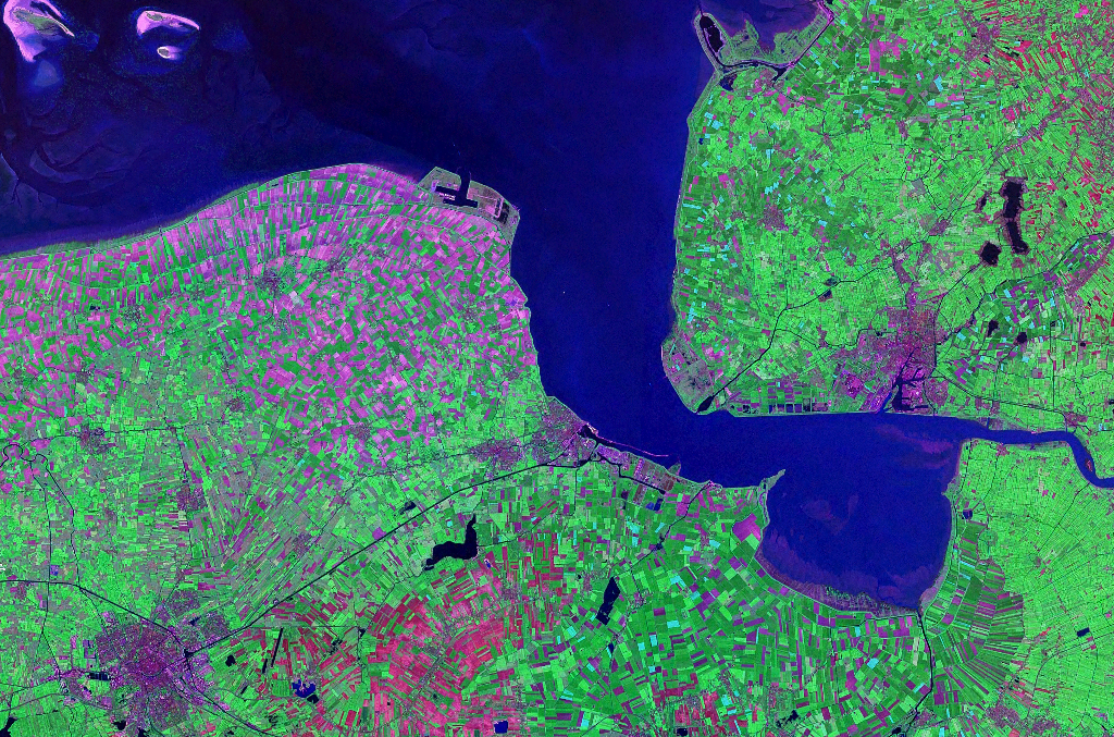 Satellite image of the Ems-Dollart estuarium between The Netherlands and Germany. Nasa World Wind Landsat 7 satellite, Geocover 2000